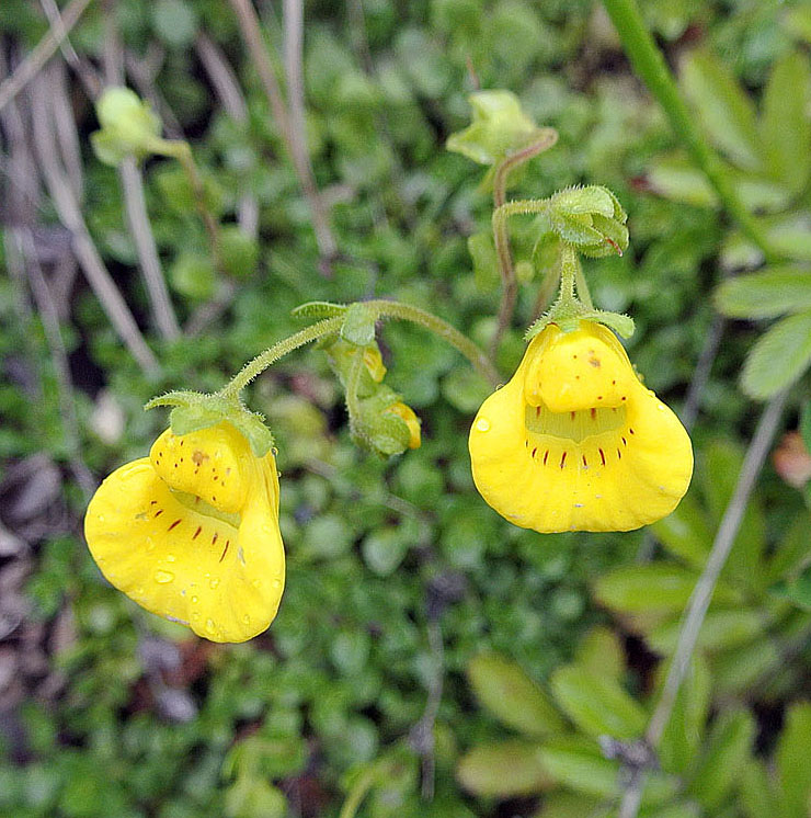 A largely patagonian species. Photo from valley of Rio Exploradores, Chile.